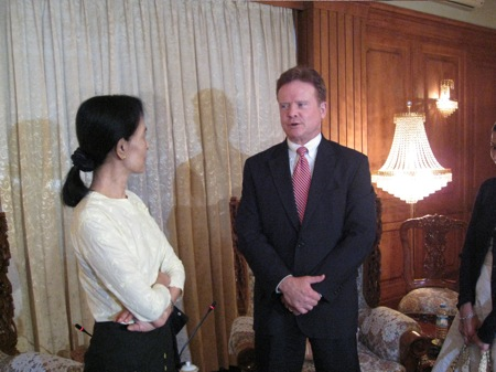 Senator Jim Webb (D-VA) meets with Nobel Peace Prize Laureate Aung San Suu Kyi.